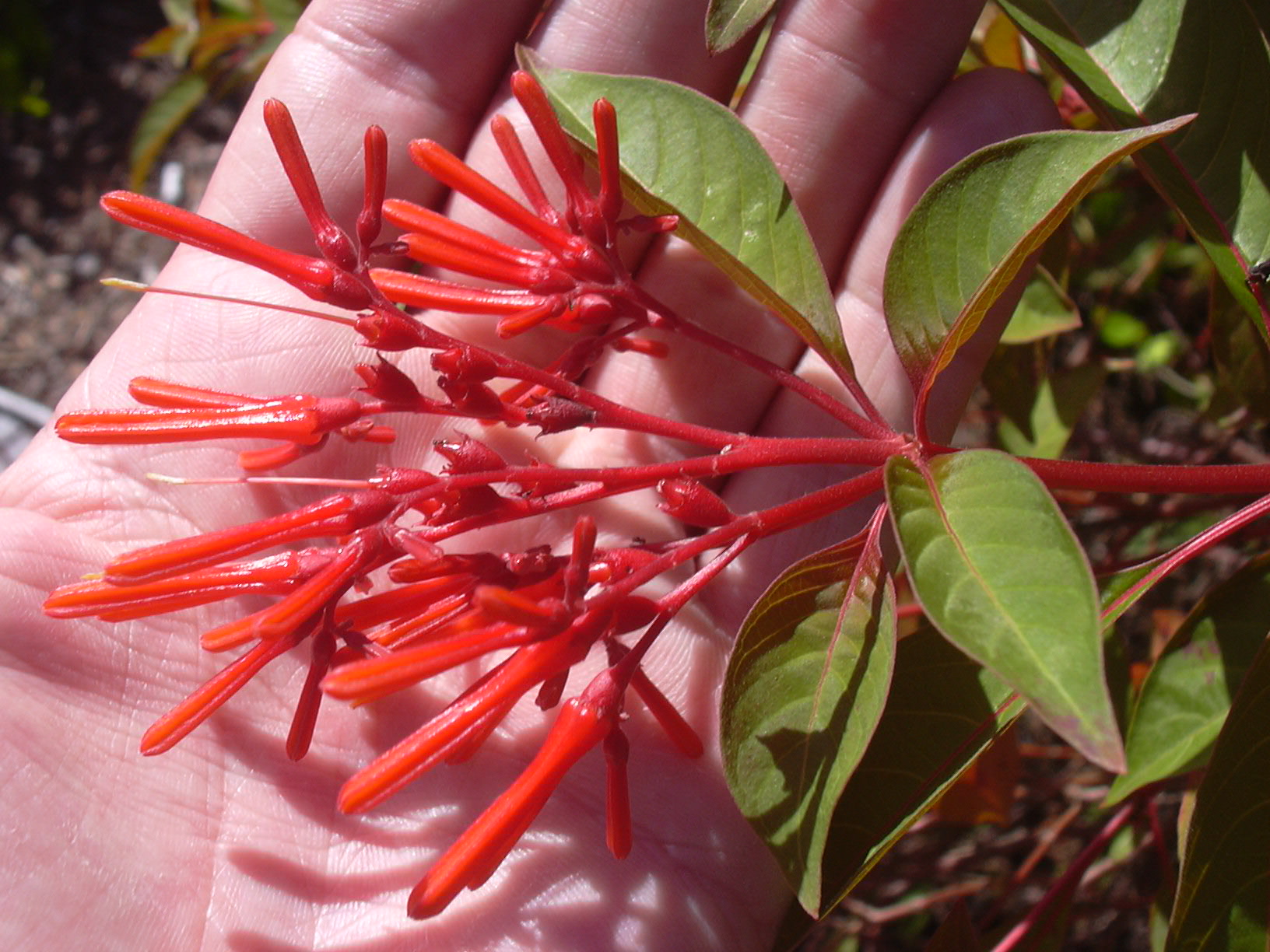 Hamelia patens (flowers). Location: Florida, Turtle Beach